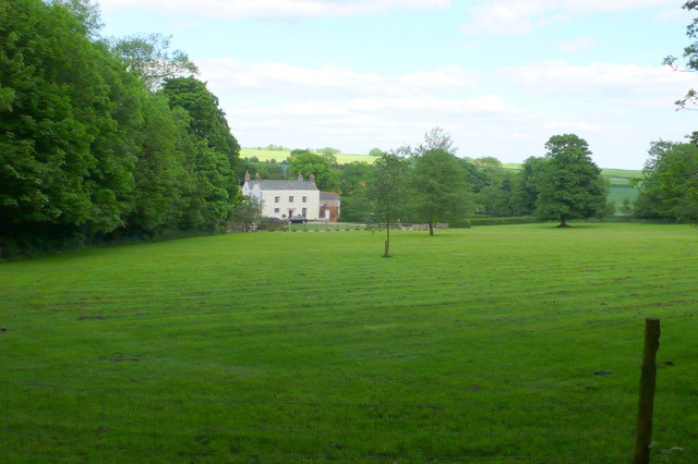 Doles Ash Farmhouse This is the main house of a large holiday cottage complex